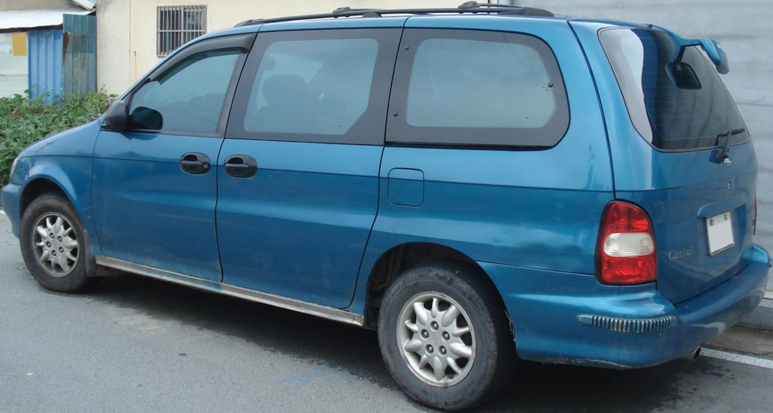 Kia Carnival